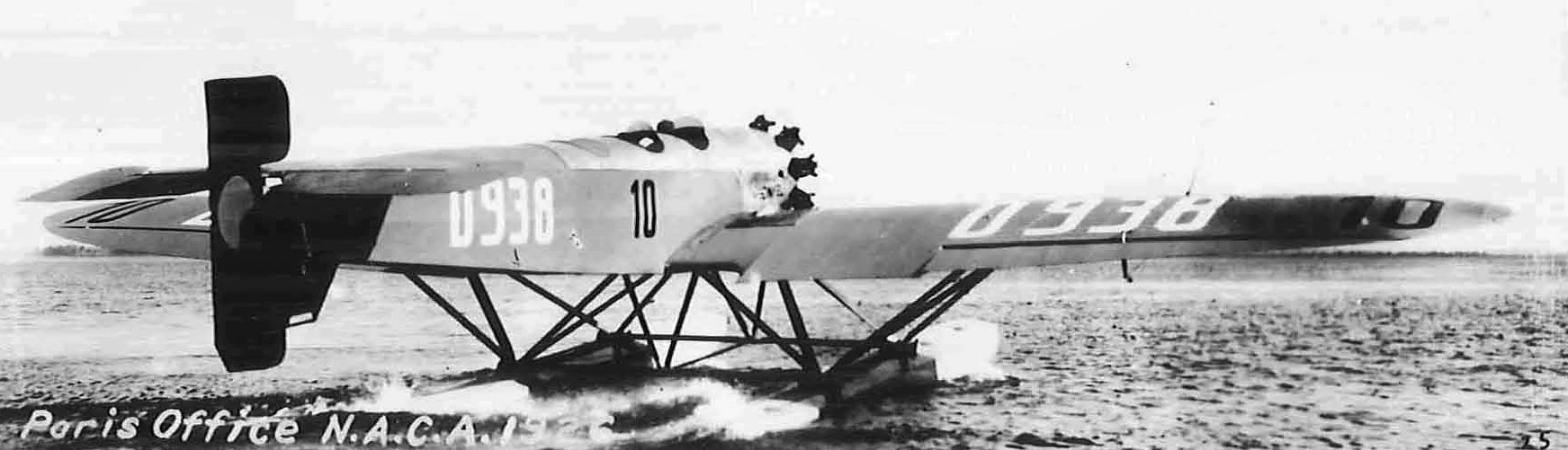 Heinkel HE 5b photo from NACA Aircraft Circular No.38